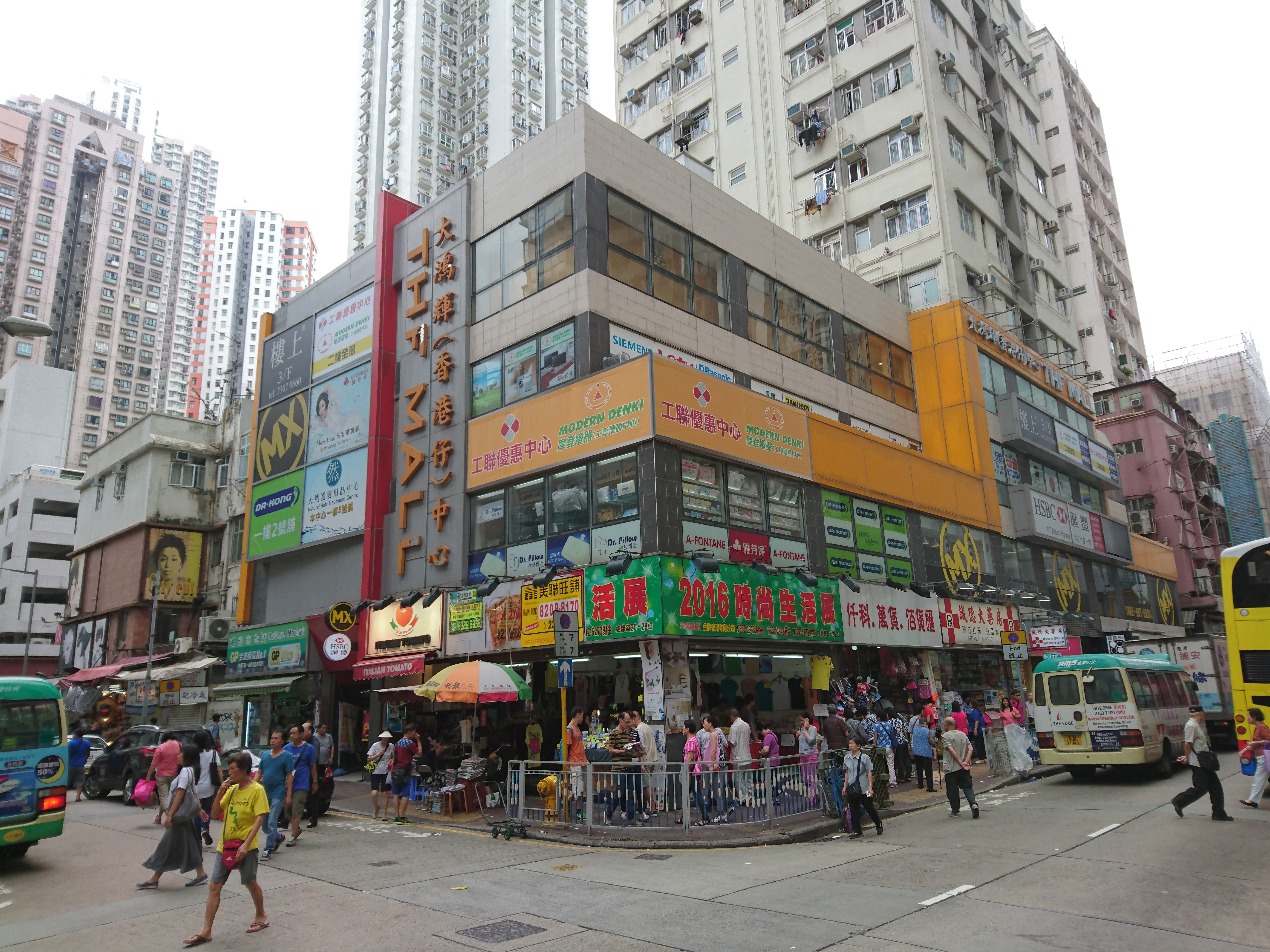 THF Mall (Aberdeen)